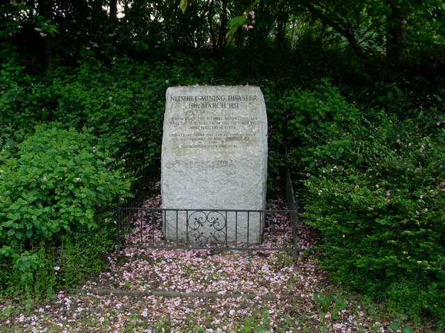 Memorial to the Nitshill Mining Disaster An explosion at the Victoria Mine in Nitshill in 1851 left 61 miners dead - only two of the 63 workers on shift that night survived.